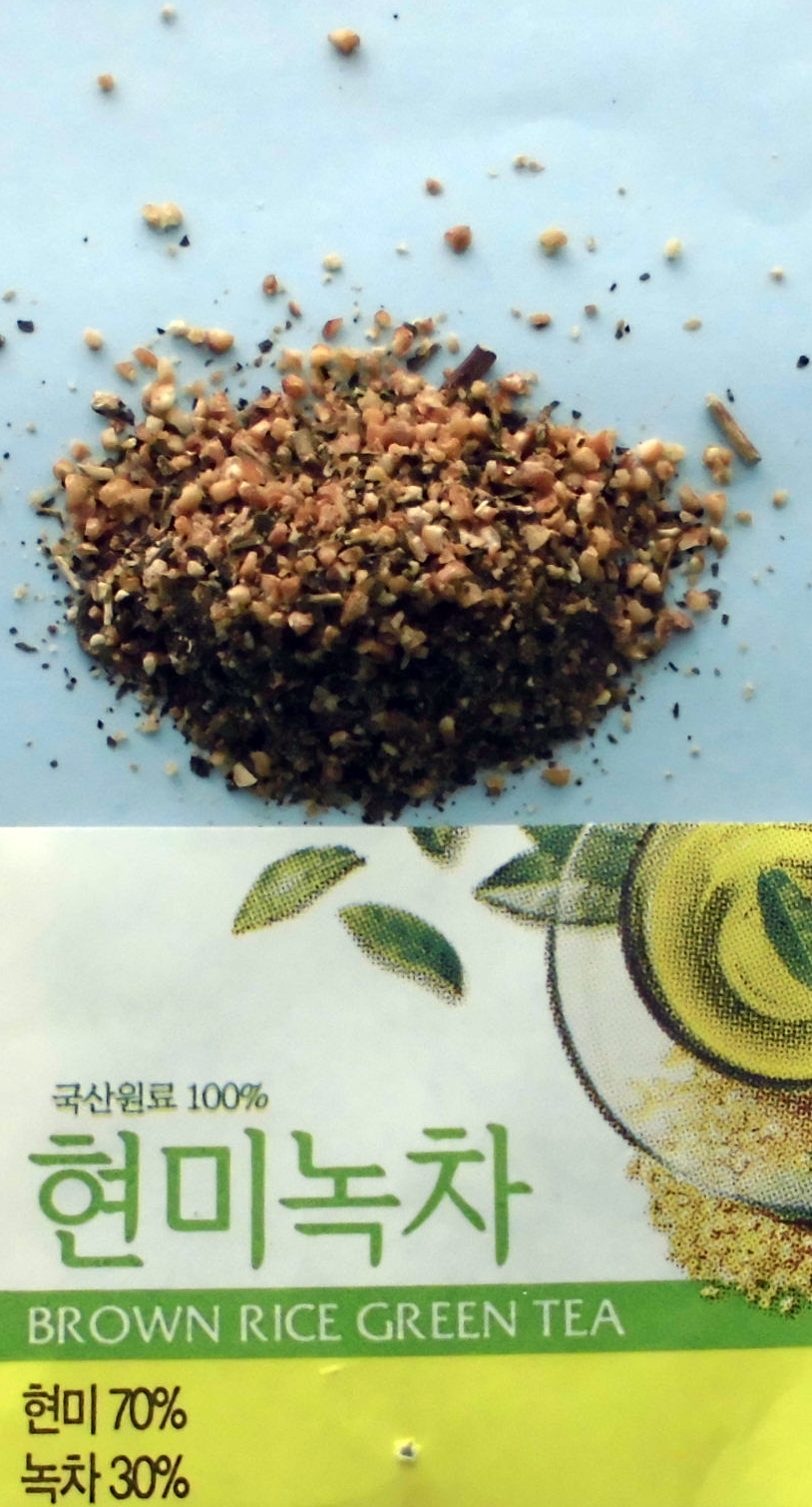 Hyeonmi nokcha (kor. 현미녹차, Hanja 玄米緑茶), Korean Brown Rice Green Tea, a mixture of roasted natural rice (hyeonmi) and green tea (nokcha)